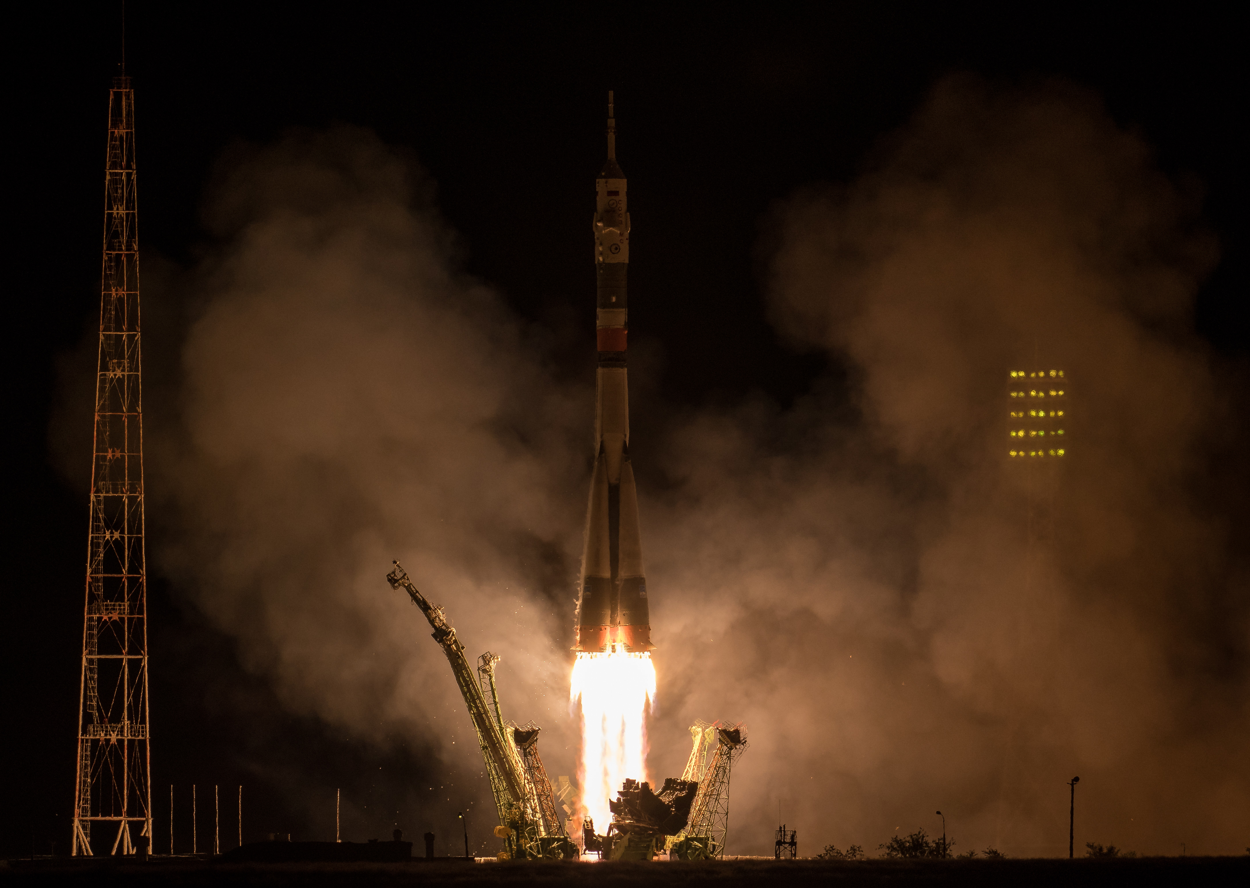 The Soyuz MS-06 spacecraft launches from the Baikonur Cosmodrome with Expedition 50 crewmembers Joe Acaba of NASA, Alexander Misurkin of Roscosmos, and Mark Vande Hei of NASA from the Baikonur Cosmodrome in Kazakhstan, Wednesday, Sept. 13, 2017, (Kazakh time) (Sept. 12, U.S. time). Acaba, Misurkin, and Vande Hei will spend approximately five and half months on the International Space Station.